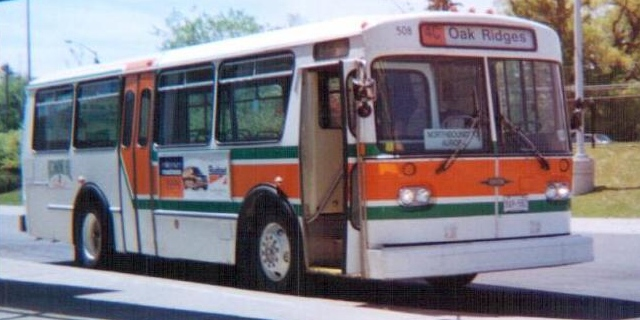 An Orion I bus operated by Richmond Hill Transit bus on route 4C providing transit services in Aurora, Ontario